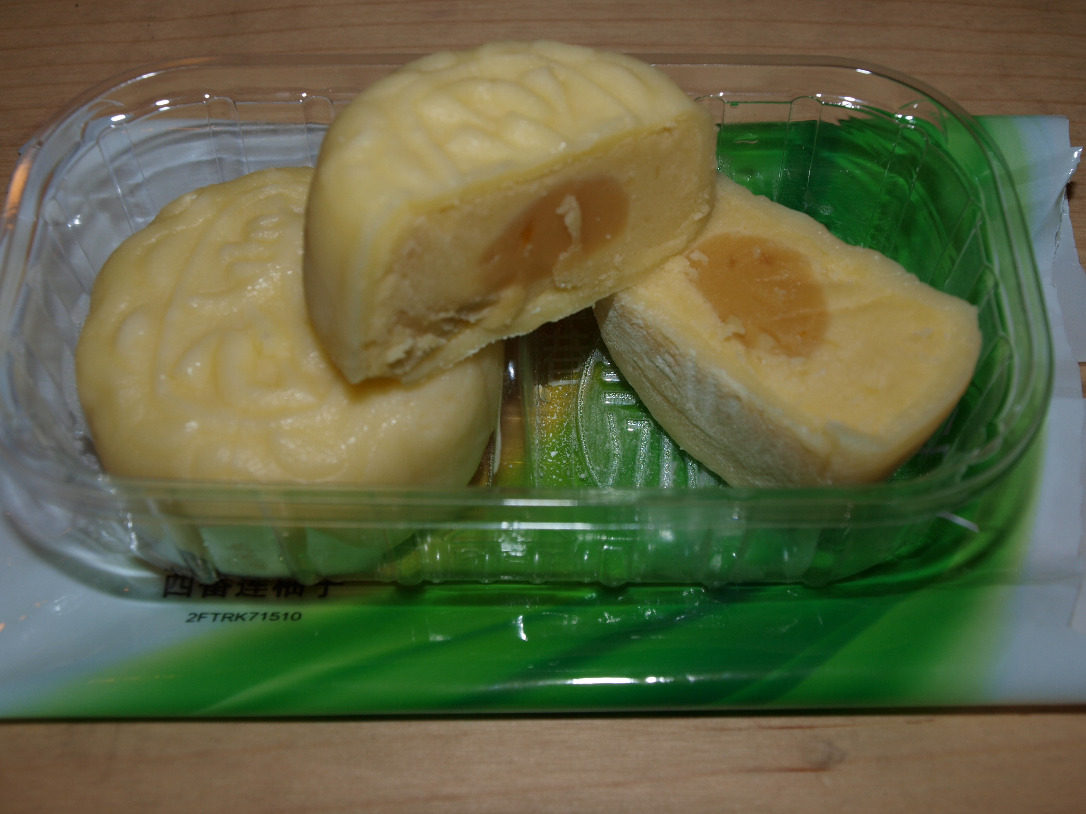 This is a pack of snowy mooncakes. That was bought from Maxim's Cakes in Hong Kong.